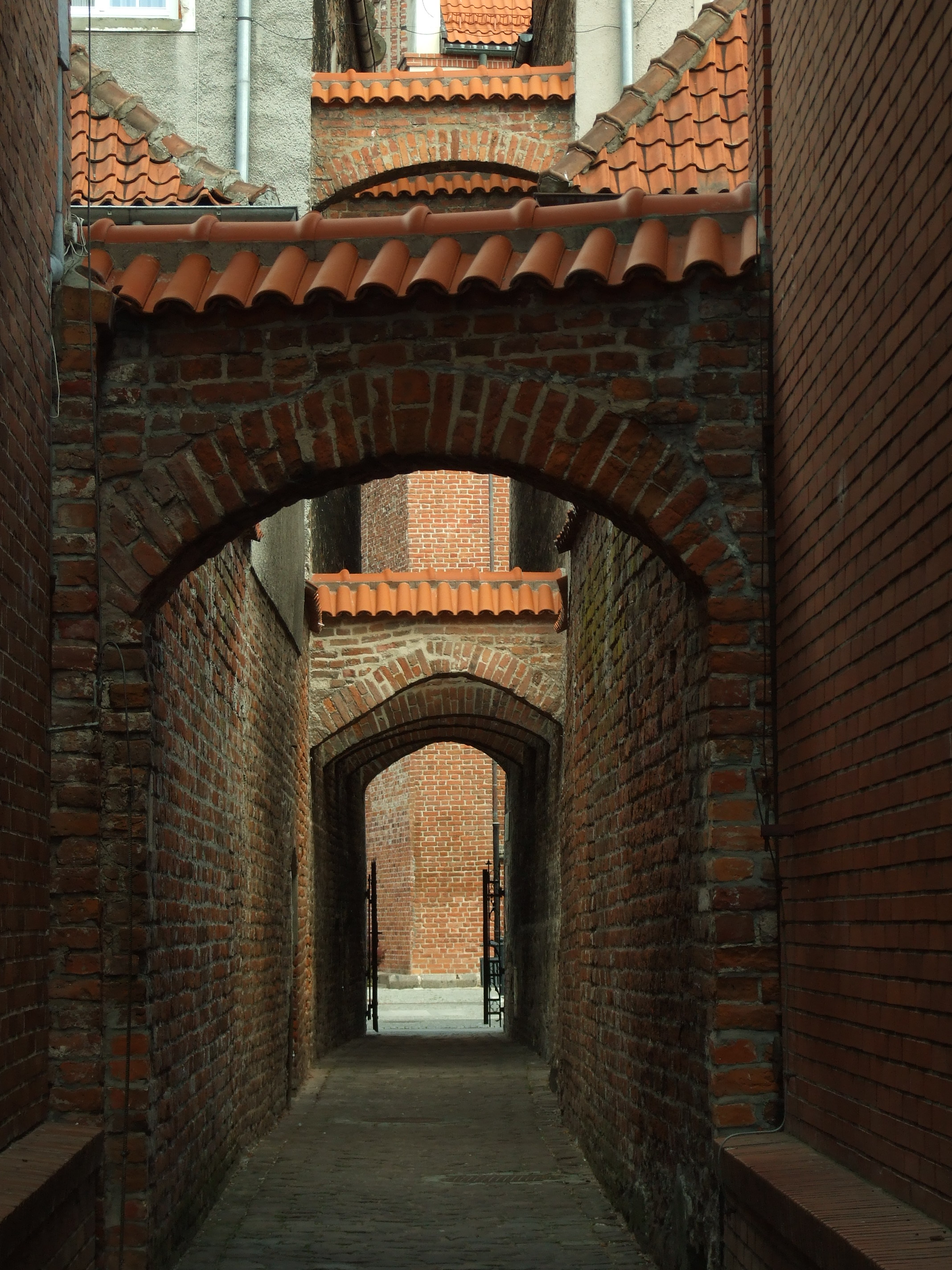 Church lane (facing north) in the very center of Elbląg, Poland